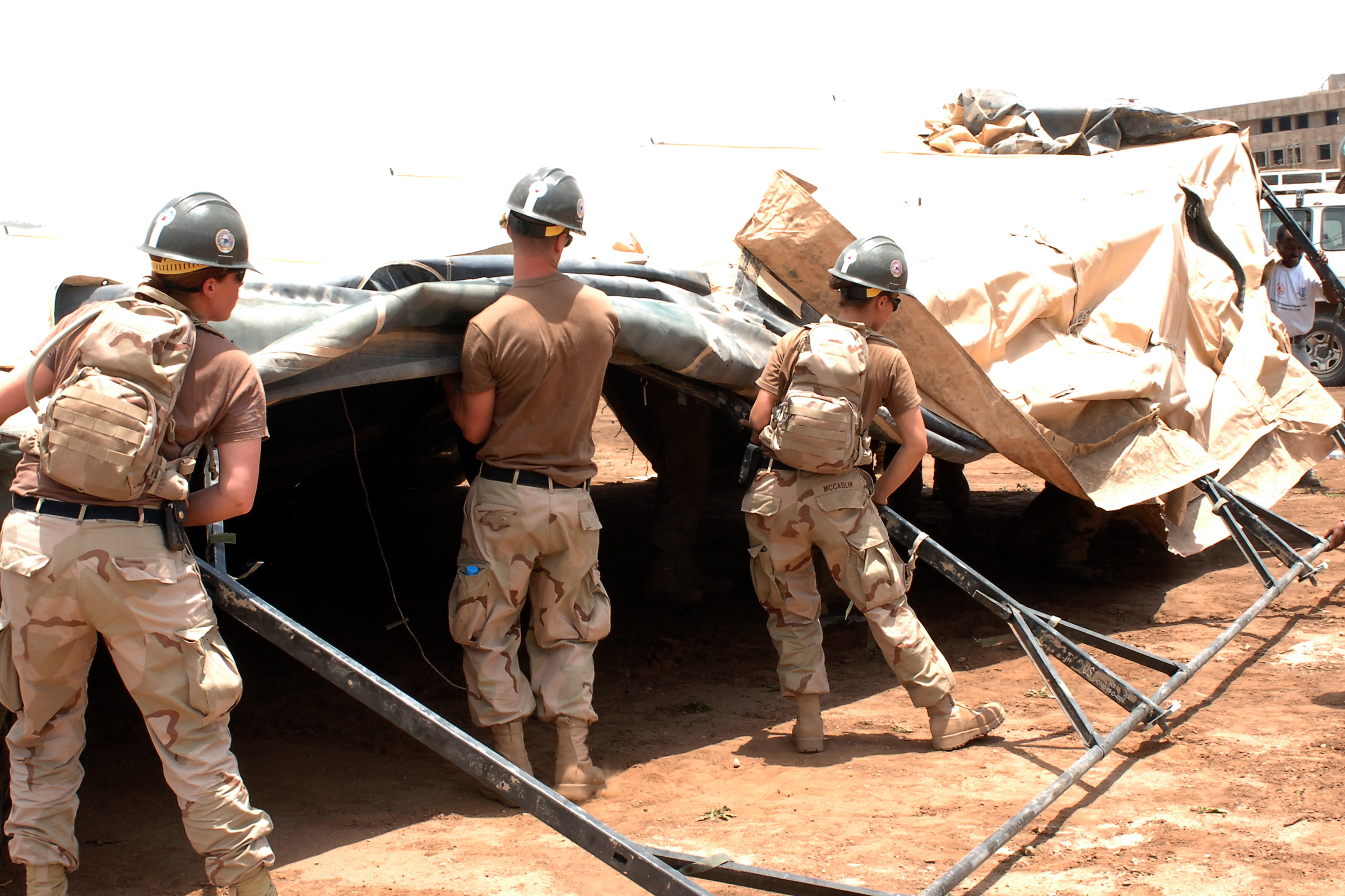 Dire Dawa, Ethiopia (Aug. 21, 2006) - A team of U.S. Navy Seabees assigned to Naval Mobile Construction Battalion Five (NMCB 5), attached to Combined Joint Task Force Horn of Africa (CJTF HOA), set up tents to house approximately 6,000 displaced victims of a devastating flood that hit Dire Dawa, Ethiopia. NMCB-5 joined a multi-national effort, including Non-Governmental Organizations (NGO) and United States Agency for International Development (USAID) in the humanitarian effort following 15 days of heavy rain that washed away roads and homes in the region. U.S. Navy photo Chief Mass Communication Specialist Robert Palomares (RELEASED)